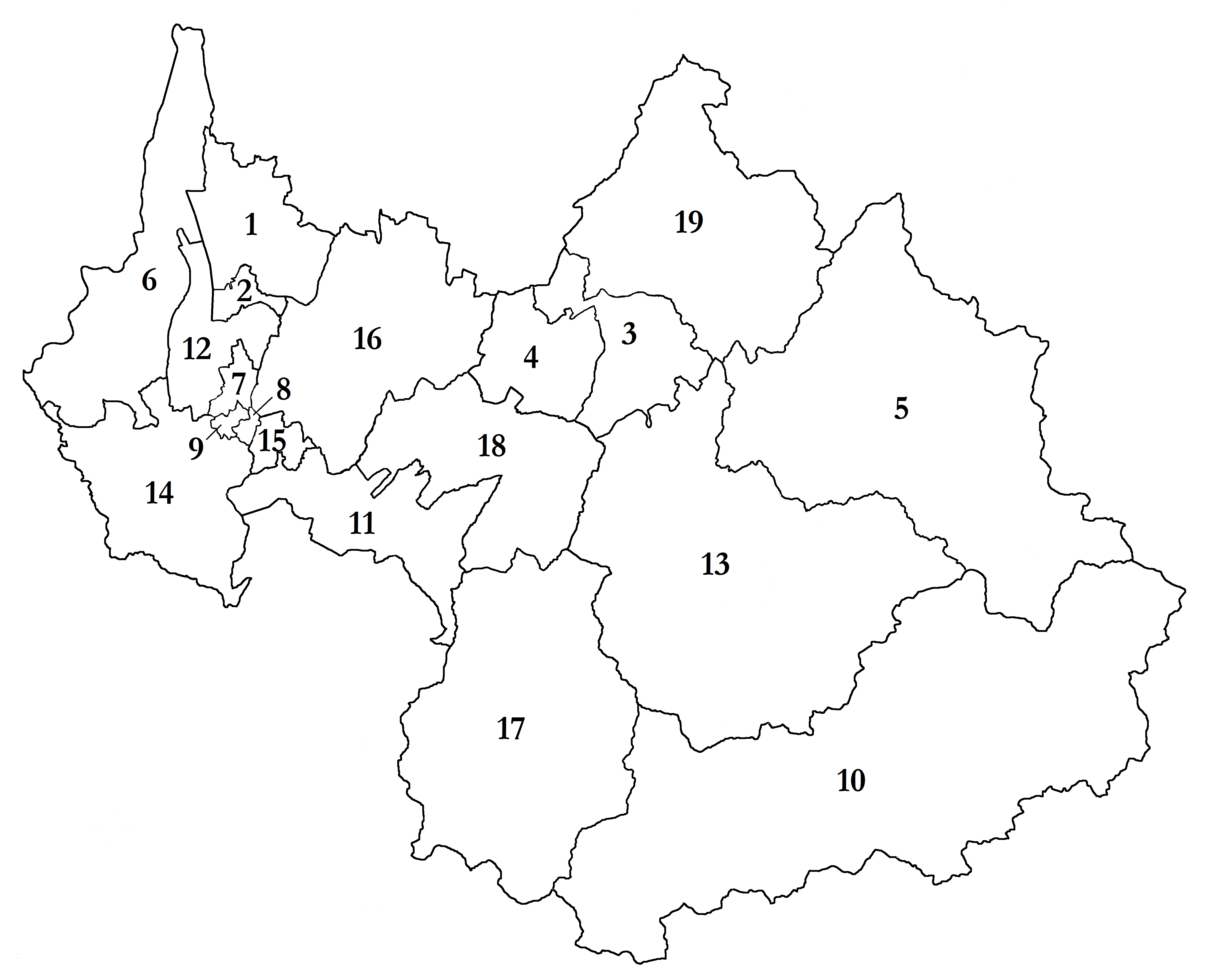 Map of the 19 electoral 'cantons' of the French department of Savoie, made official in 2015.